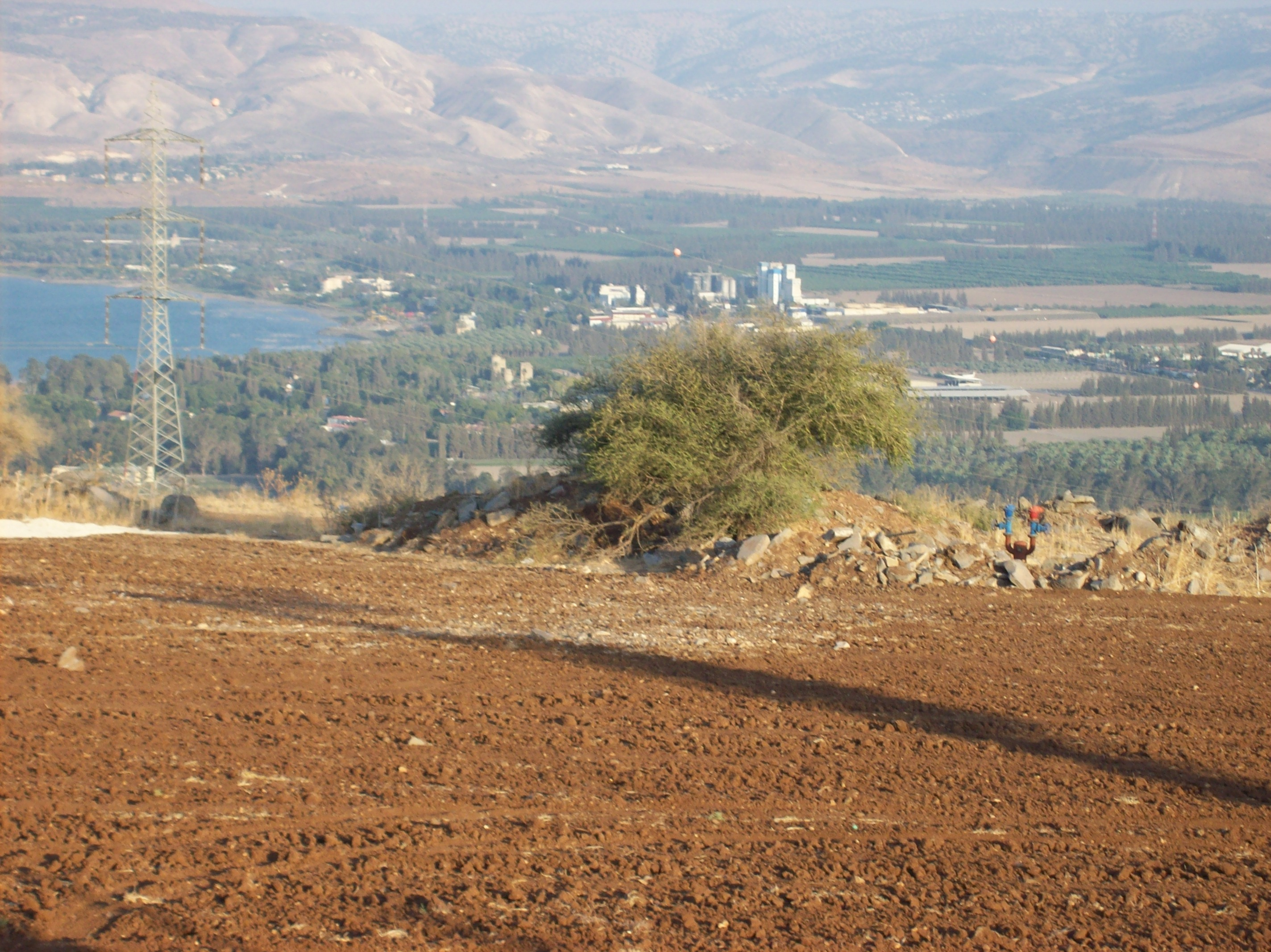 Geography of Israel